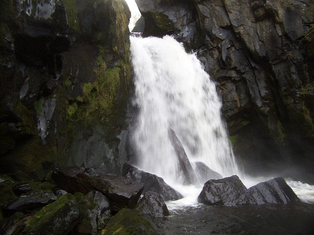 Waterfall on River Devon. Cauldron Linn, a waterfall on the River Devon, lies near the confluence of the River and the Gairney Burn, and access can be gained from the dismantled railway to the south.